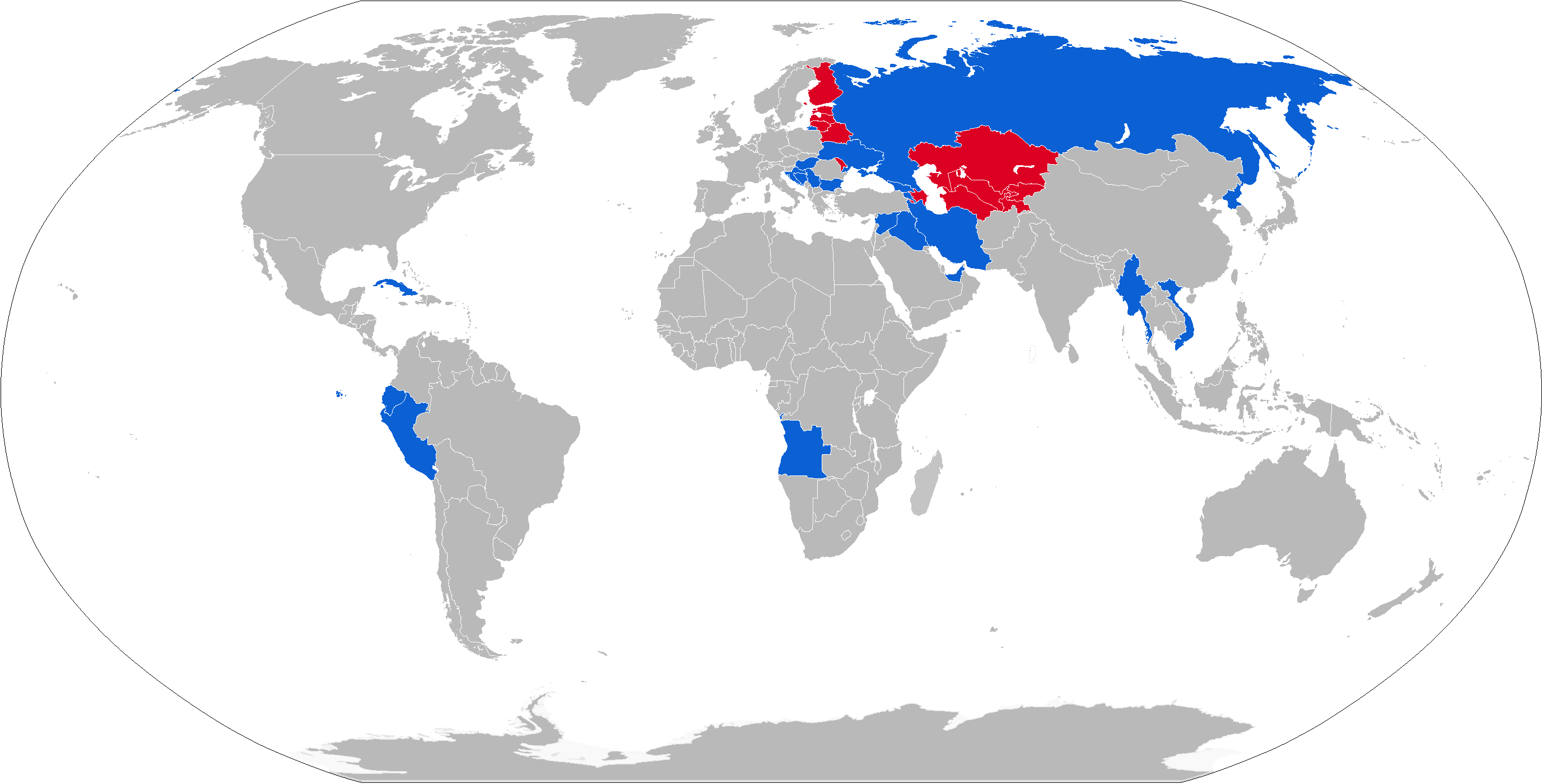 Map with SA-16 operators in blue and former operators in red